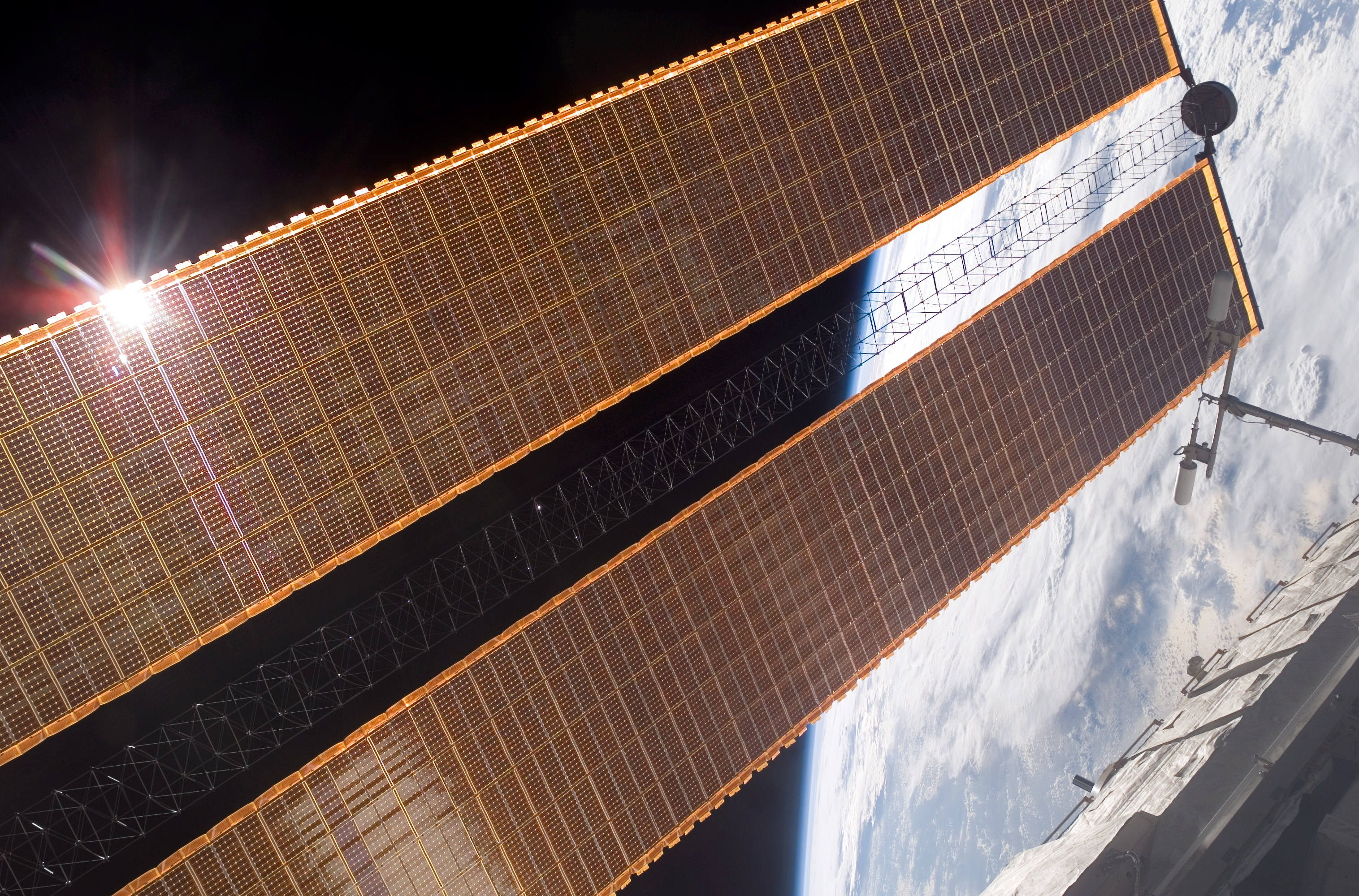 Space Shuttle Atlantis astronauts spread a second set of wings for the International Space Station today. The new solar arrays were fully extended at 7:44 a.m CDT. The new arrays span a total of 240 feet and have a width of 38 feet. They are attached to the station's newest component, the P3/P4 integrated truss segment. The installation of the P3/P4, which occurred Tuesday, and the deployment of the arrays set the stage for future expansion of the station.